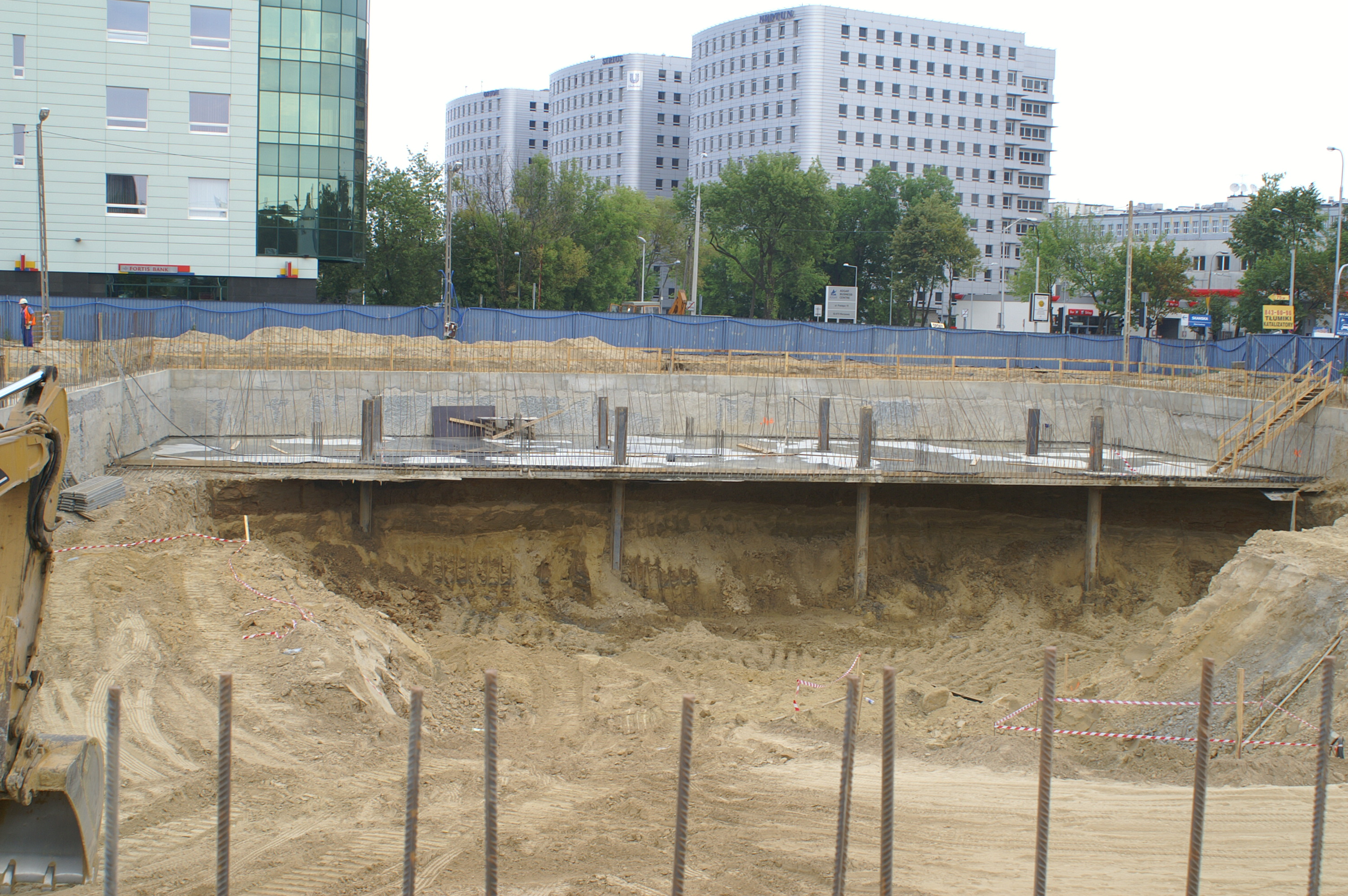 Temporary supports on construction site - Marynarska Point, Warsaw. Contractor and Developer - Skanska.